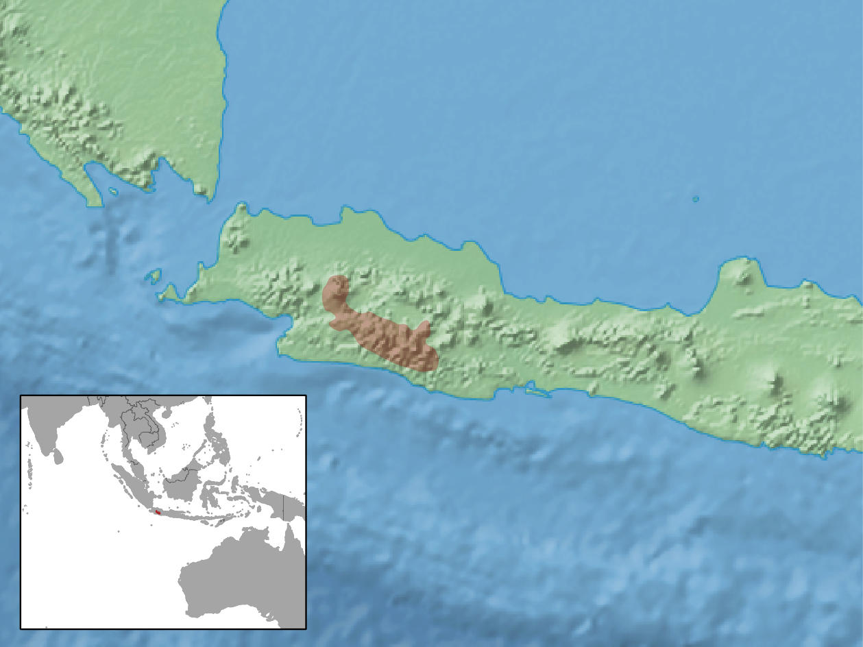 geographic distribution of Sundamys maxi